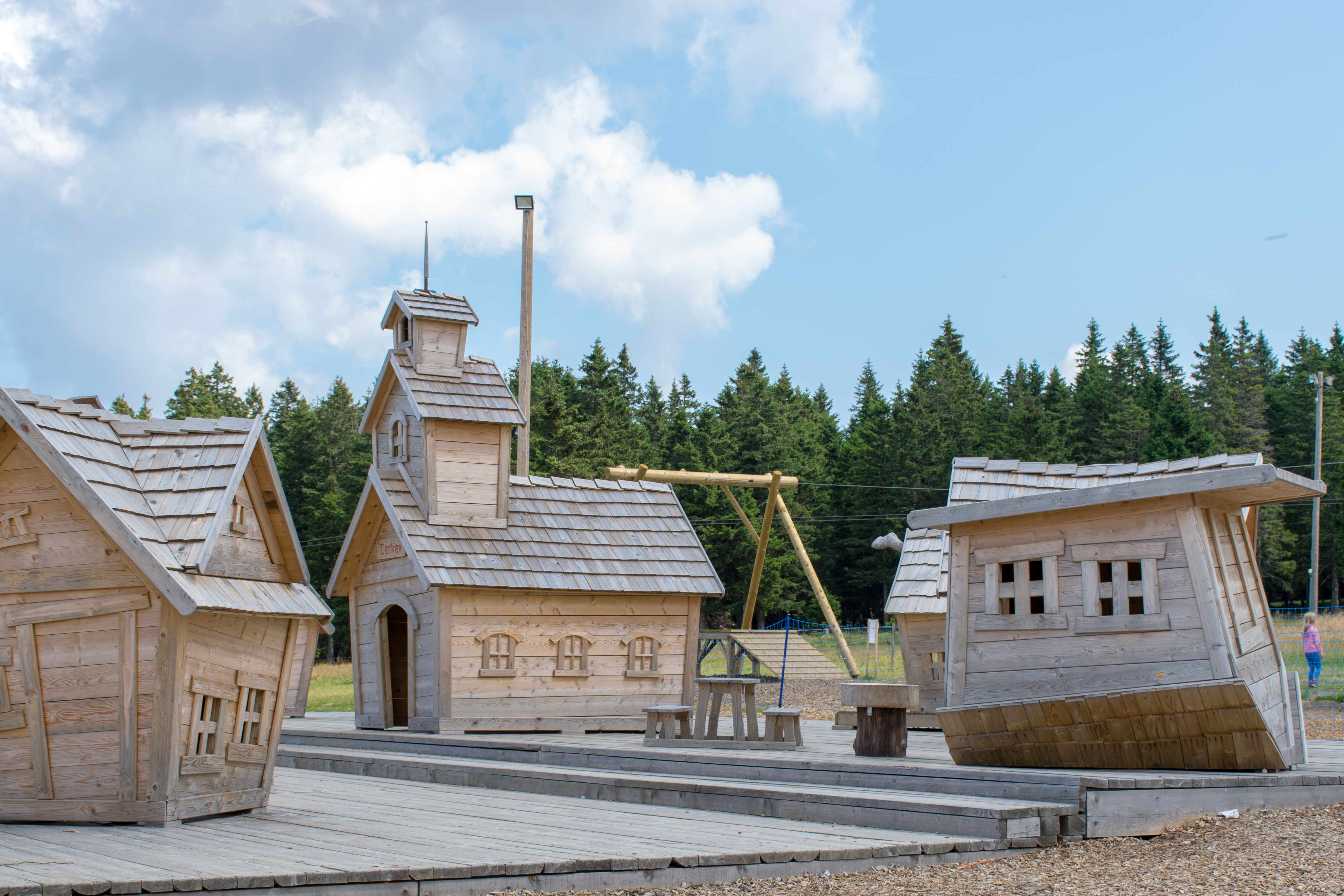 City for kids on Rogla